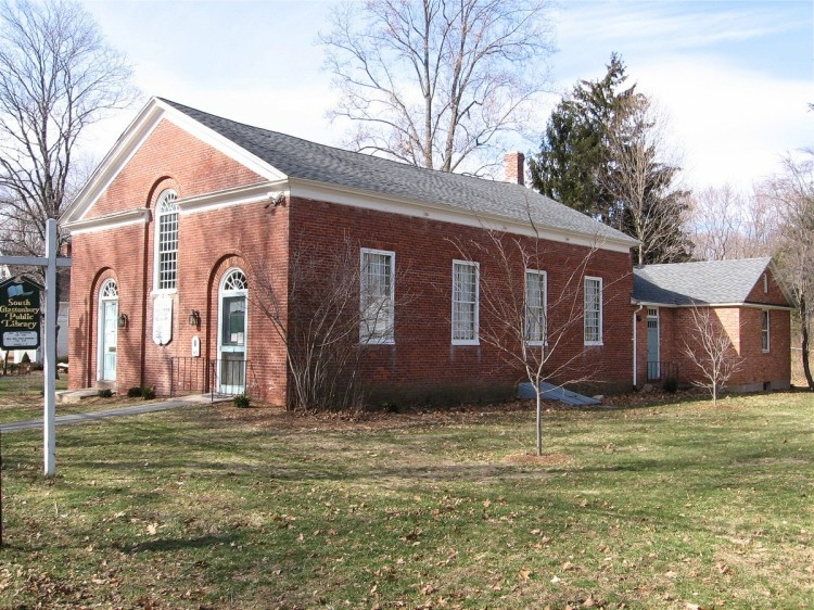 The 1882 South Glastonbury Library building, Glastonbury, Connecticut.